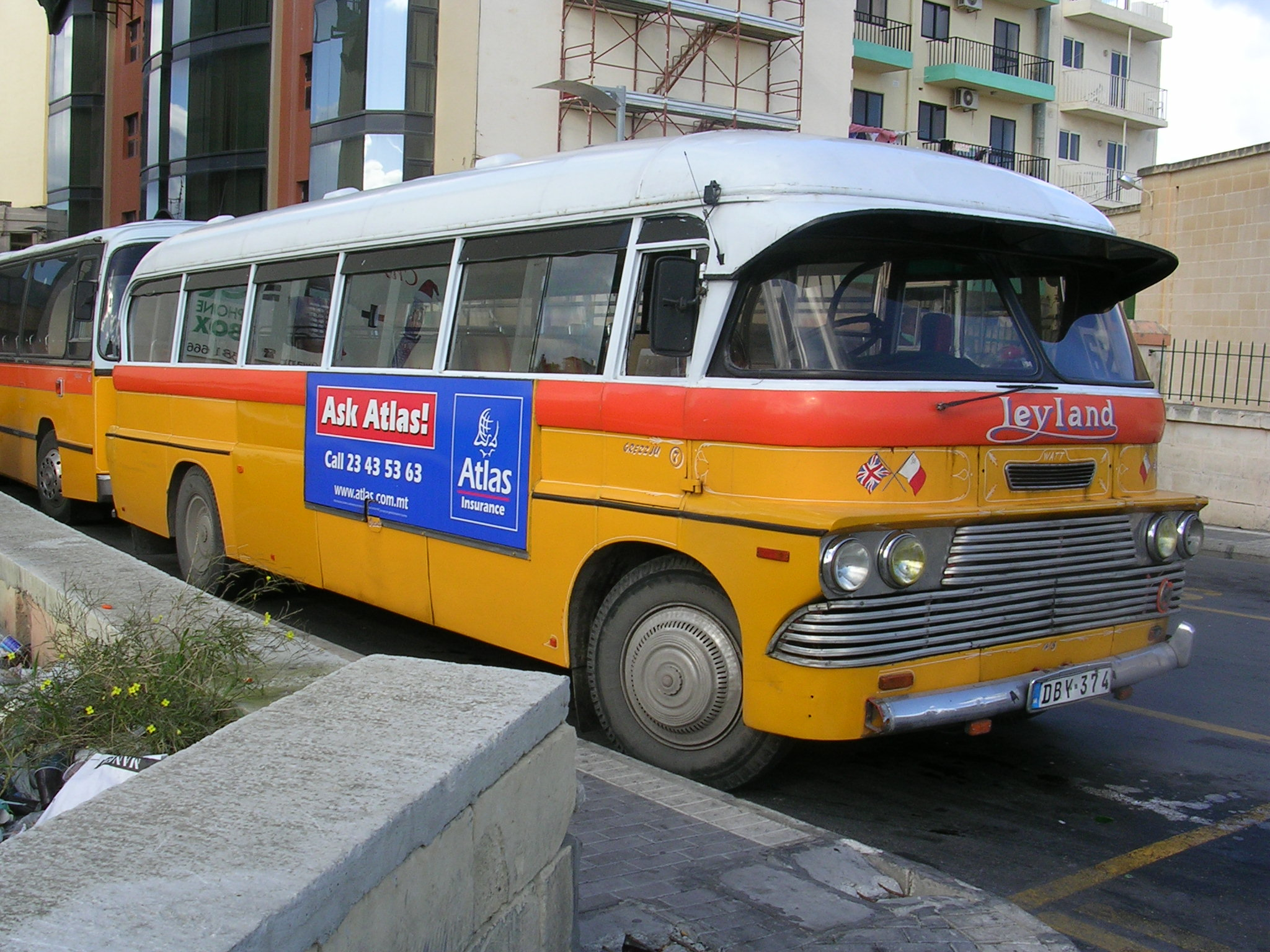 Maltesian bus. Author: Väsk Date: December 2004